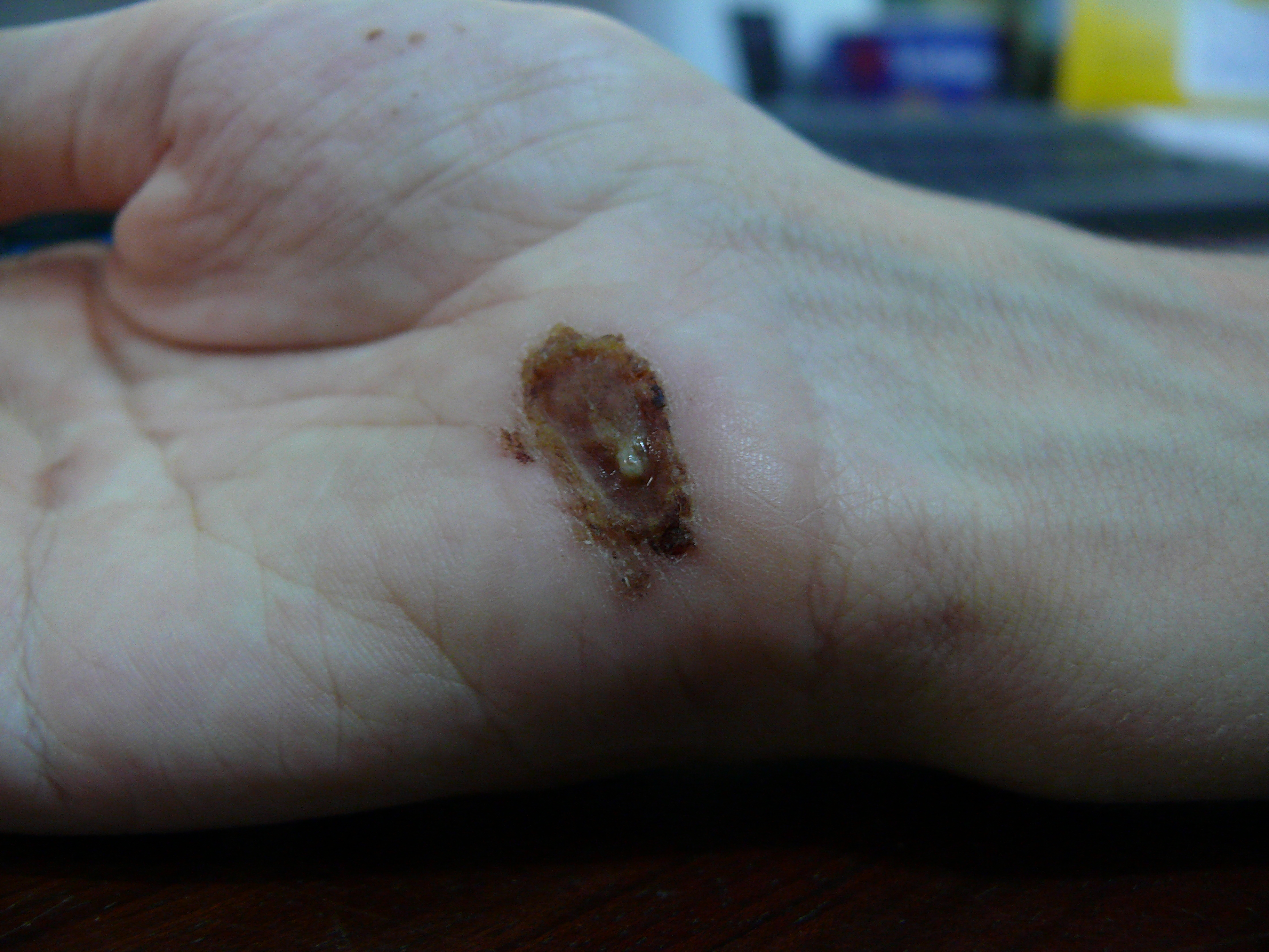 Wound on palm of hand 10 days after falling off a bike onto concrete. Previous photos: Day 1: Image:Wound on palm of hand.jpg Day 2: Image:Wound on palm of hand - day 2.jpg Day 3: Image:Wound on palm of hand - day 3.jpg Day 4: Image:Wound on palm of hand - day 4.jpg Day 5: Image:Wound on palm of hand - day 5.jpg Day 6: Image:Wound on palm of hand - day 6.jpg Day 7: Image:Wound on palm of hand - day 7.jpg Day 8: Image:Wound on palm of hand - day 8.jpg Day 9: Image:Wound on palm of hand - day 9.jpg Following photos: Day 11: Image:Wound on palm of hand - day 11.jpg Day 12: Image:Wound on palm of hand - day 12.jpg Day 13: Image:Wound on palm of hand - day 13.jpg Day 14: Image:Wound on palm of hand - day 14.jpg Day 15: Image:Wound on palm of hand - day 15.jpg Day 16: Image:Wound on palm of hand - day 16.jpg Day 17: Image:Wound on palm of hand - day 17.jpg Day 18: Image:Wound on palm of hand - day 18.jpg Day 19: Image:Wound on palm of hand - day 19.jpg Day 20: Image:Wound on palm of hand - day 20.jpg